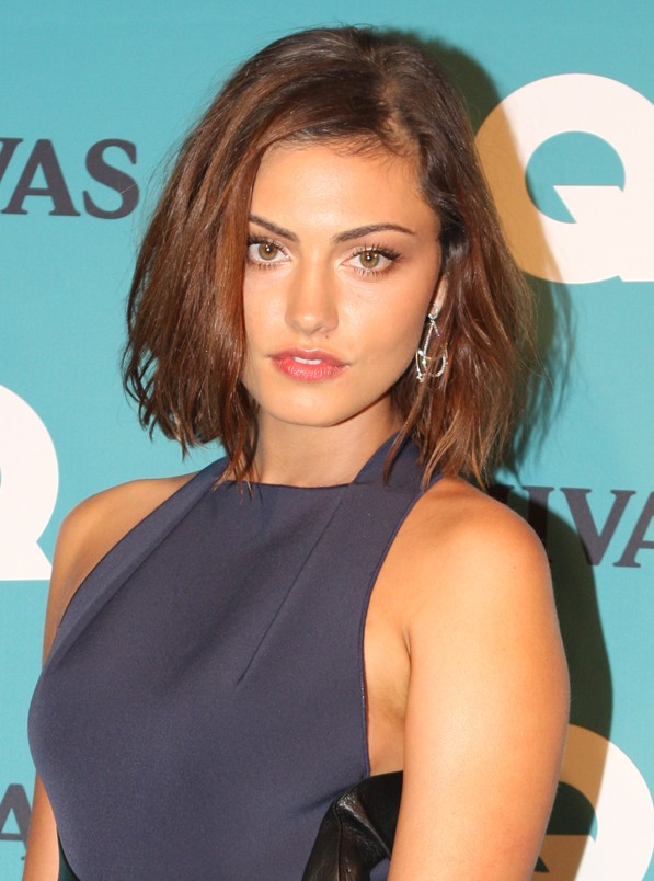 Phoebe Tonkin in November 2012.